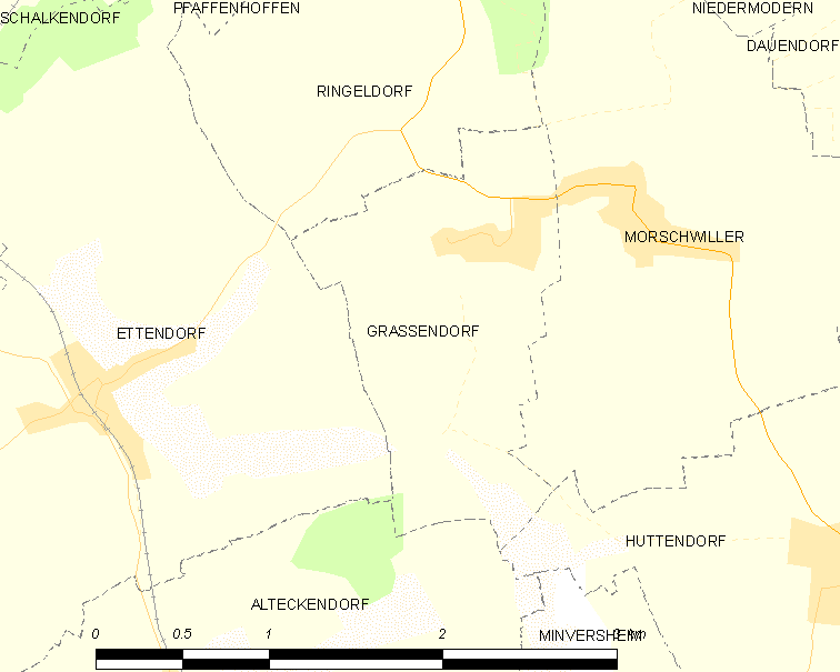 Map of French municipality